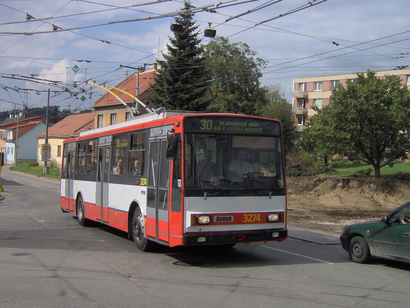 Škoda 14TrM trolleybus in Brno